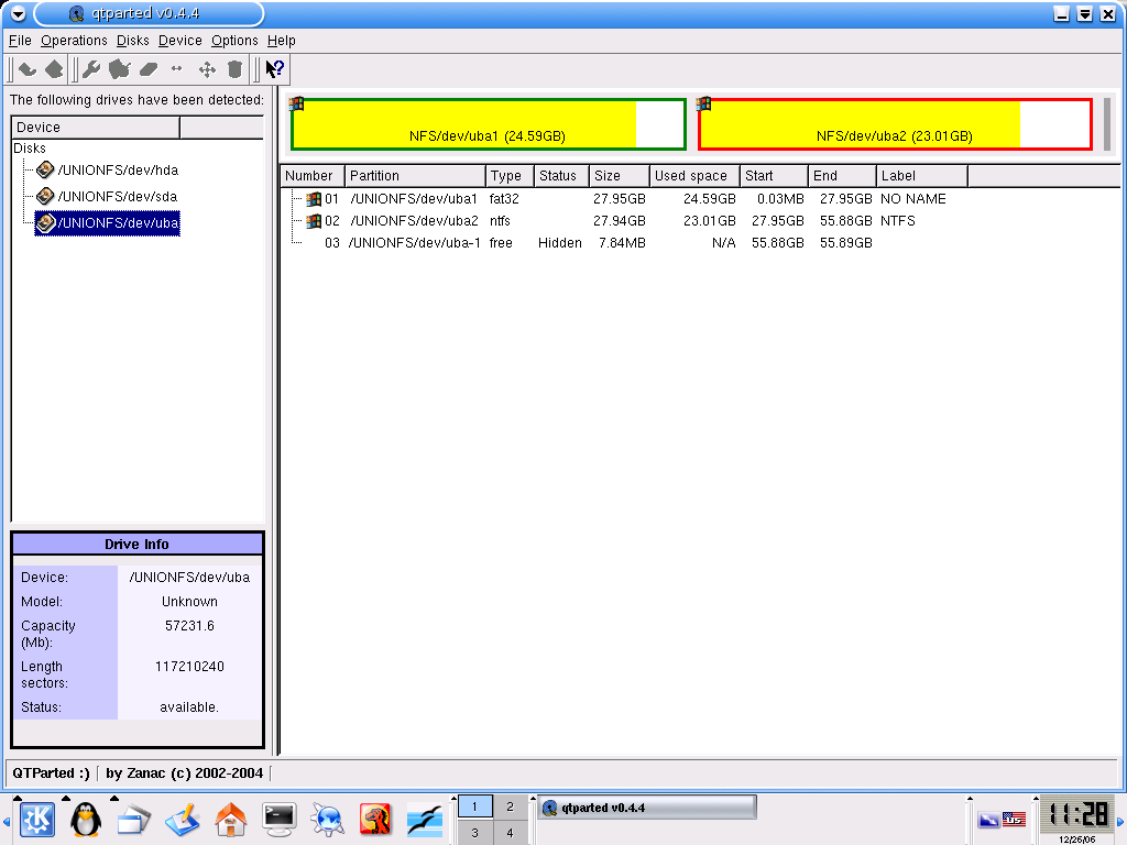 Screen capture of qtparted running on Knoppix 3.9, showing the partition information of my USB notebook HDD. Notice the last 8MB is marked free, but indeed is used to store the disk signature by Win2K/WinXP.